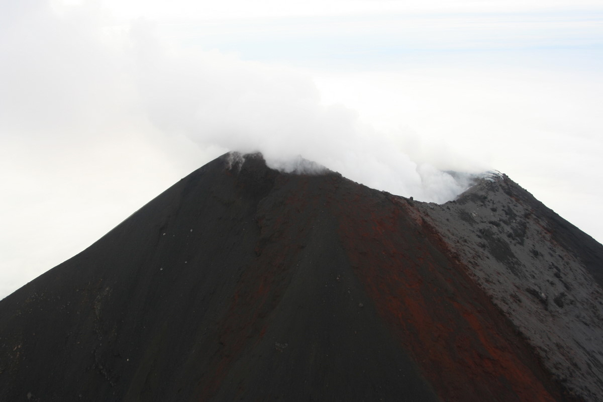 The summit of Mt. Cleveland, Alaska steaming